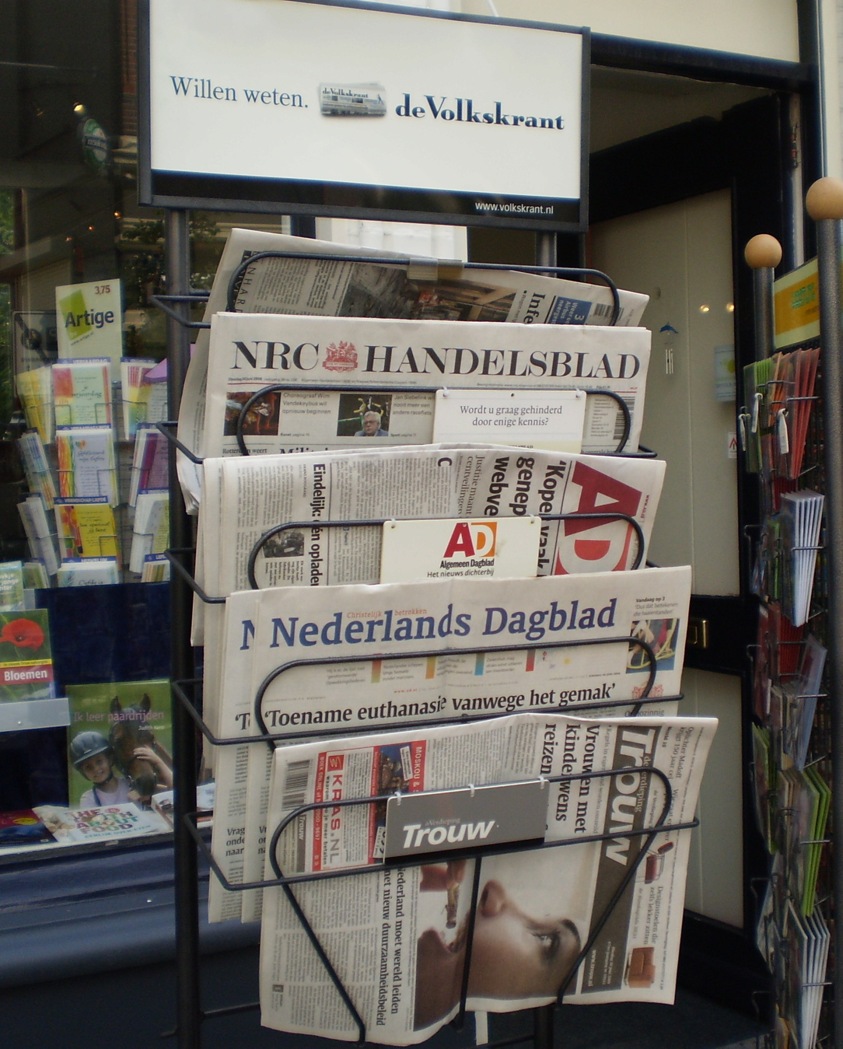 Dutch newspapers at a bookstore in Nijmegen